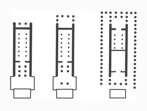 Turkey, Lidia, Sardis, temple of Artemis (Artemision), schematic plan (according the description in Ekrem Akurgal, Ancient Civilizations and Ruins of Turkey, 4th edition, Istanbul 1978, pp.127-131. At the left first building (about 300 a.C.); at the center second building (second quarter of IInd century B.C.); at the right third building (after 141 AD)